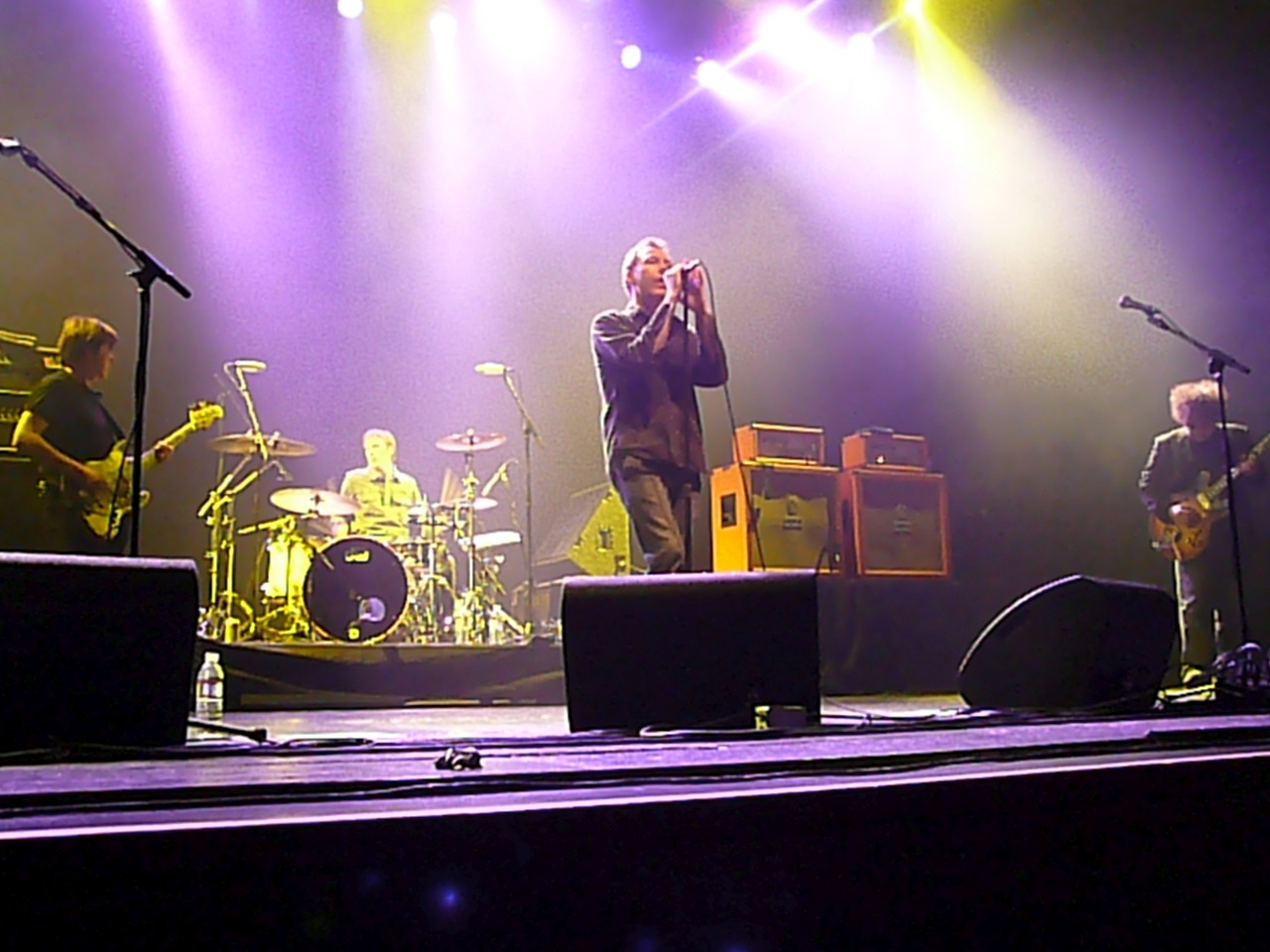 Jesus and Mary Chain live @ The Wiltern, Los Angeles, California, 23 ottobre 2007